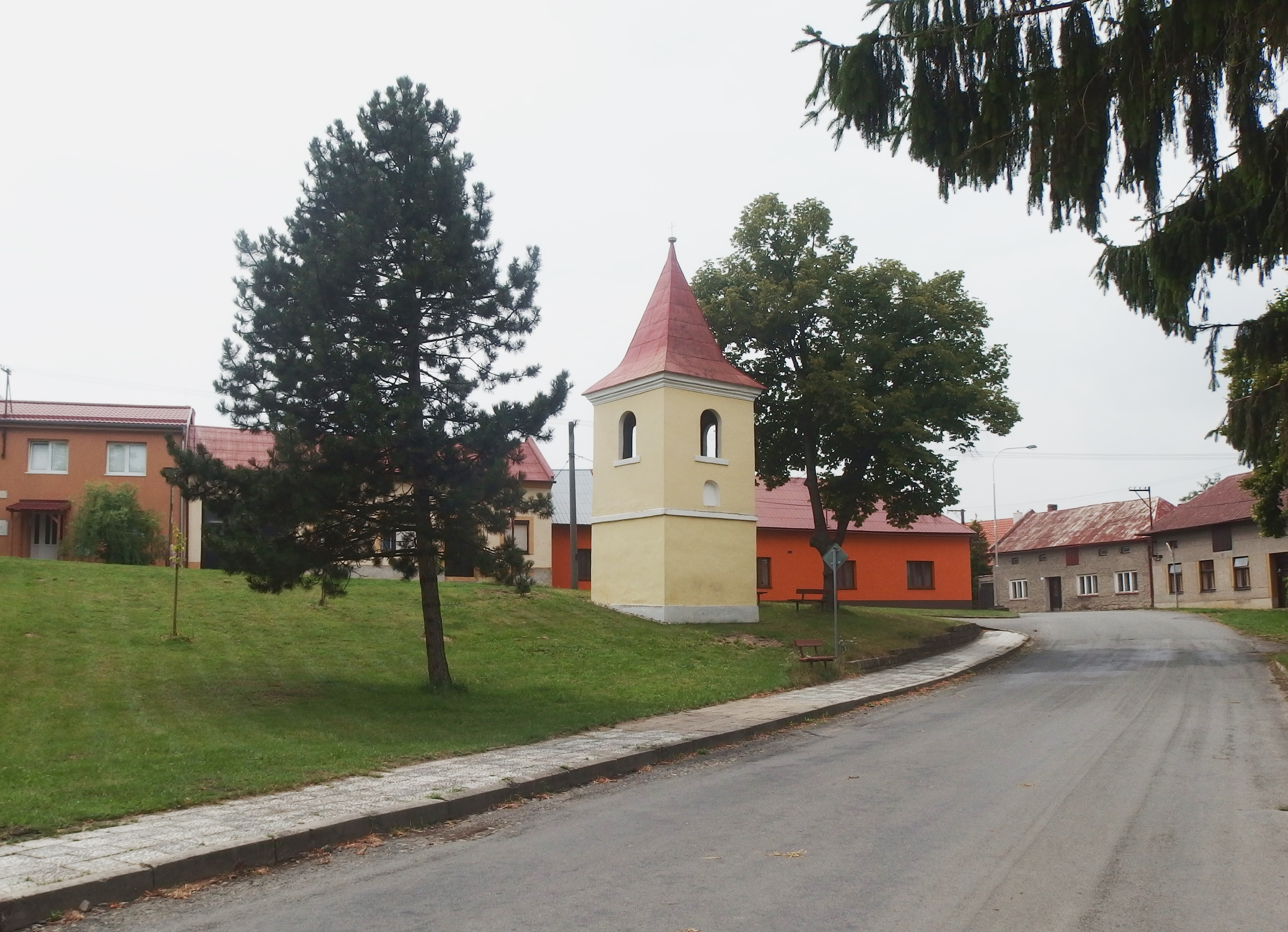 Holešov, Kroměříž District, Czech Republic, part Žopy.